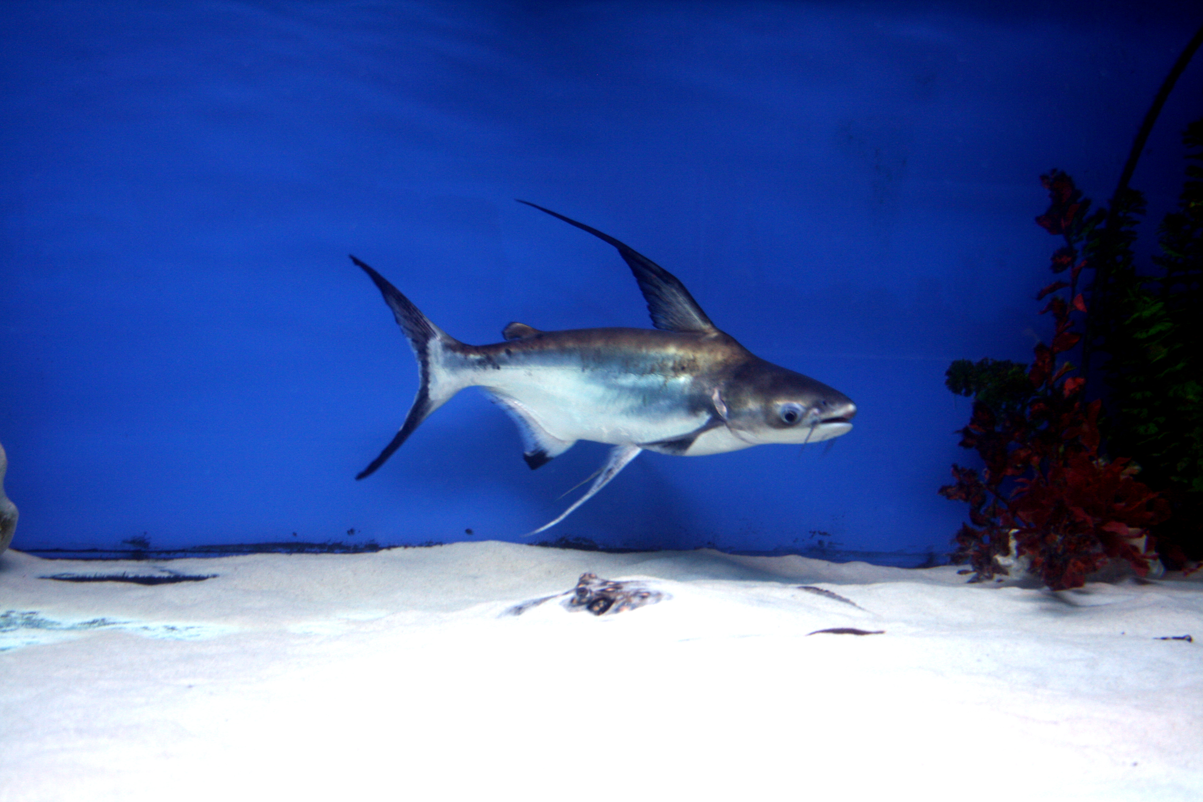 Fish Pangasius sanitwongsei, Pangasius sanitwongsei in Prague sea aquarium, Czech Republic